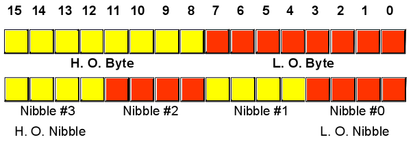 Nibbles in a word